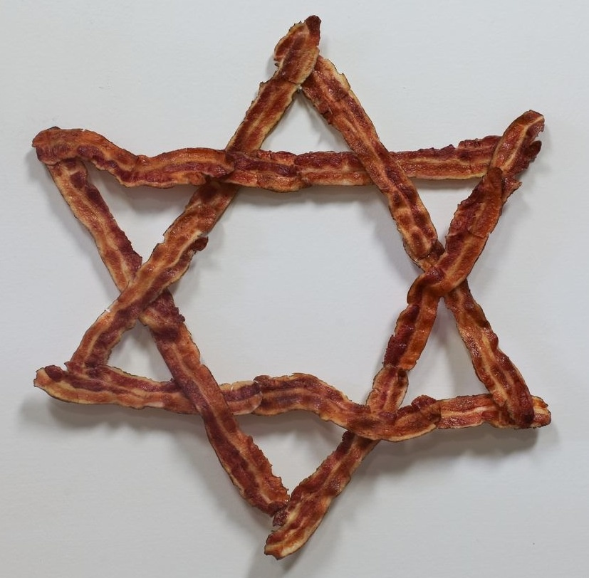 oil paint on urethane by Chloe Wise